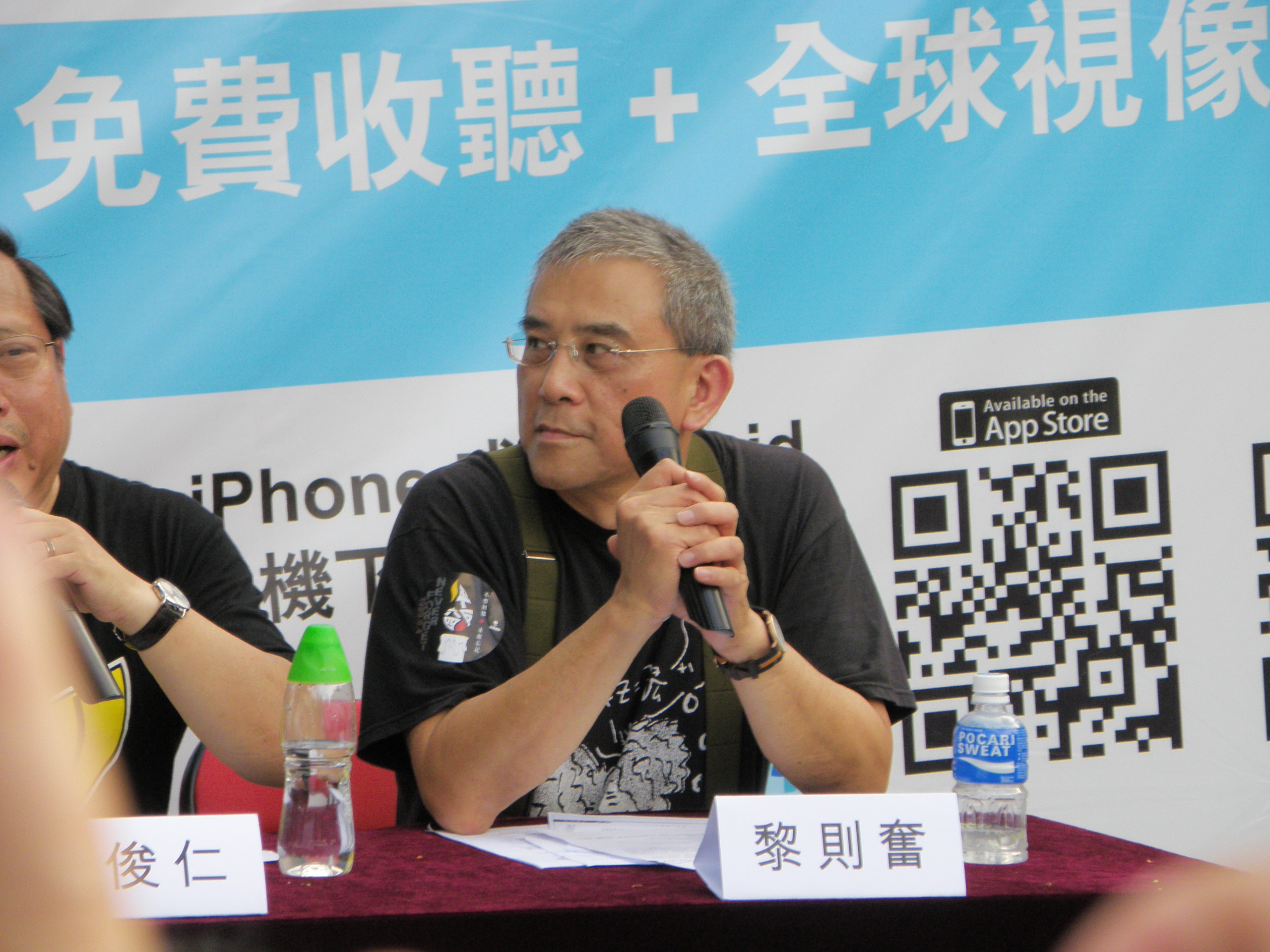 Lai Chak Fun, media people of Hong Kong.